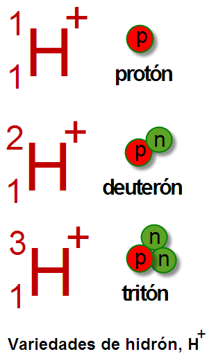 Varieties of hydron: proton, deuteron, and triton. They are hydrogen cations, H+.